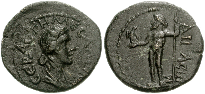 AEOLIS, Aegae. Messalina. Augusta, AD 41-48. Æ 18mm (2.56 g, 11h). Draped bust right / Zeus Aëtophorus standing left. RPC I 2430; SNG Copenhagen 23. VF, black-green patina. Rare.